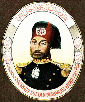 Mahmud II